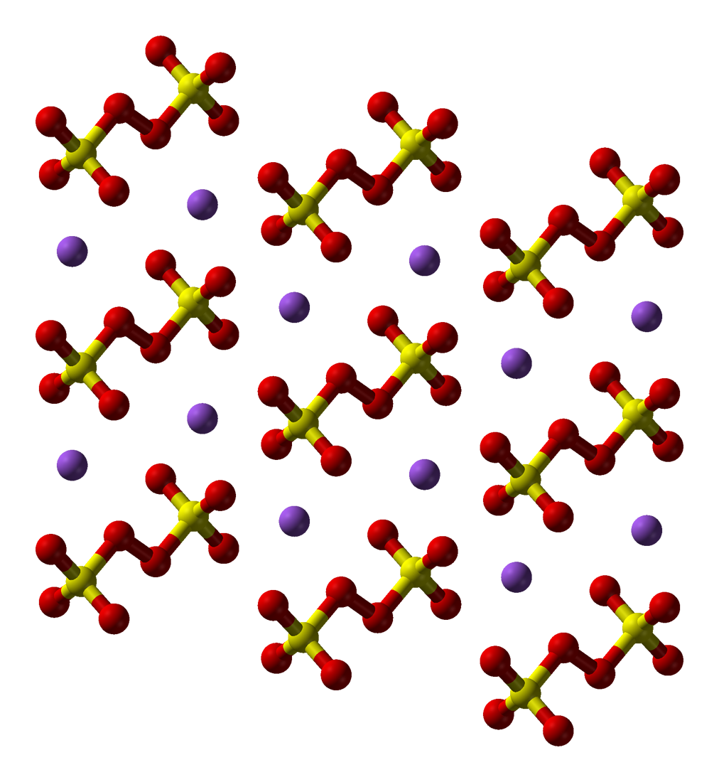 Ball-and-stick model of part of the crystal structure of sodium persulfate, Na2[S2O8]. X-ray crystallographic data from Acta Cryst. (2006). E62, i44-i46. Model constructed in CrystalMaker 8.1. Image generated in Accelrys DS Visualizer.